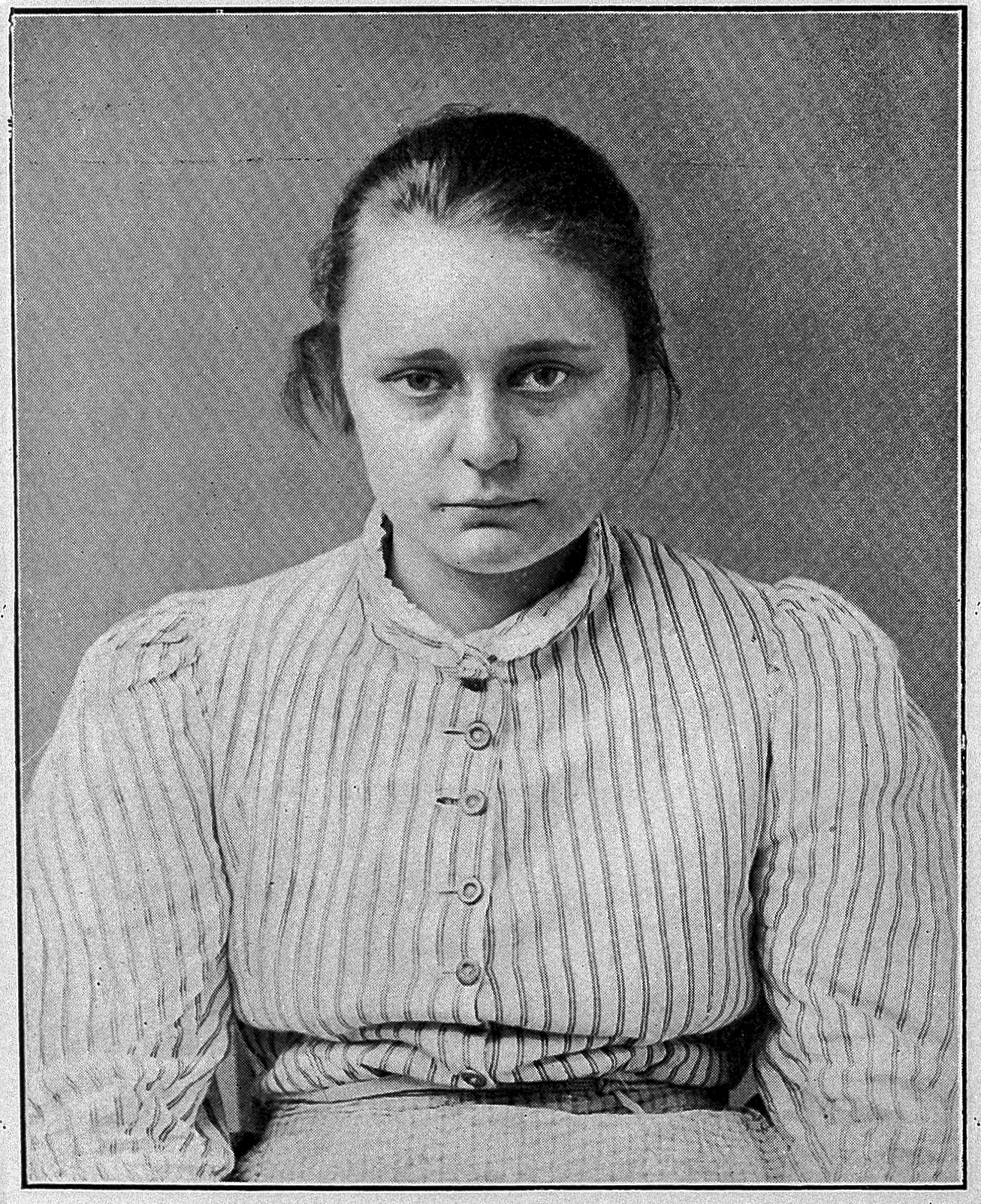 A.F. Tredgold, Mental Deficiency (Amentia). London: Bailliere, Tindall and Cox, 1929. Two Photographs opposite page 192: A.-A feeble-minded girl of unstable mental equilibrium; impulsive and deceitful. B.-A feeble-minded girl of unstable mental equilibrium-facile type. General Collections Keywords: general collections; Mental Health; Psychiatry